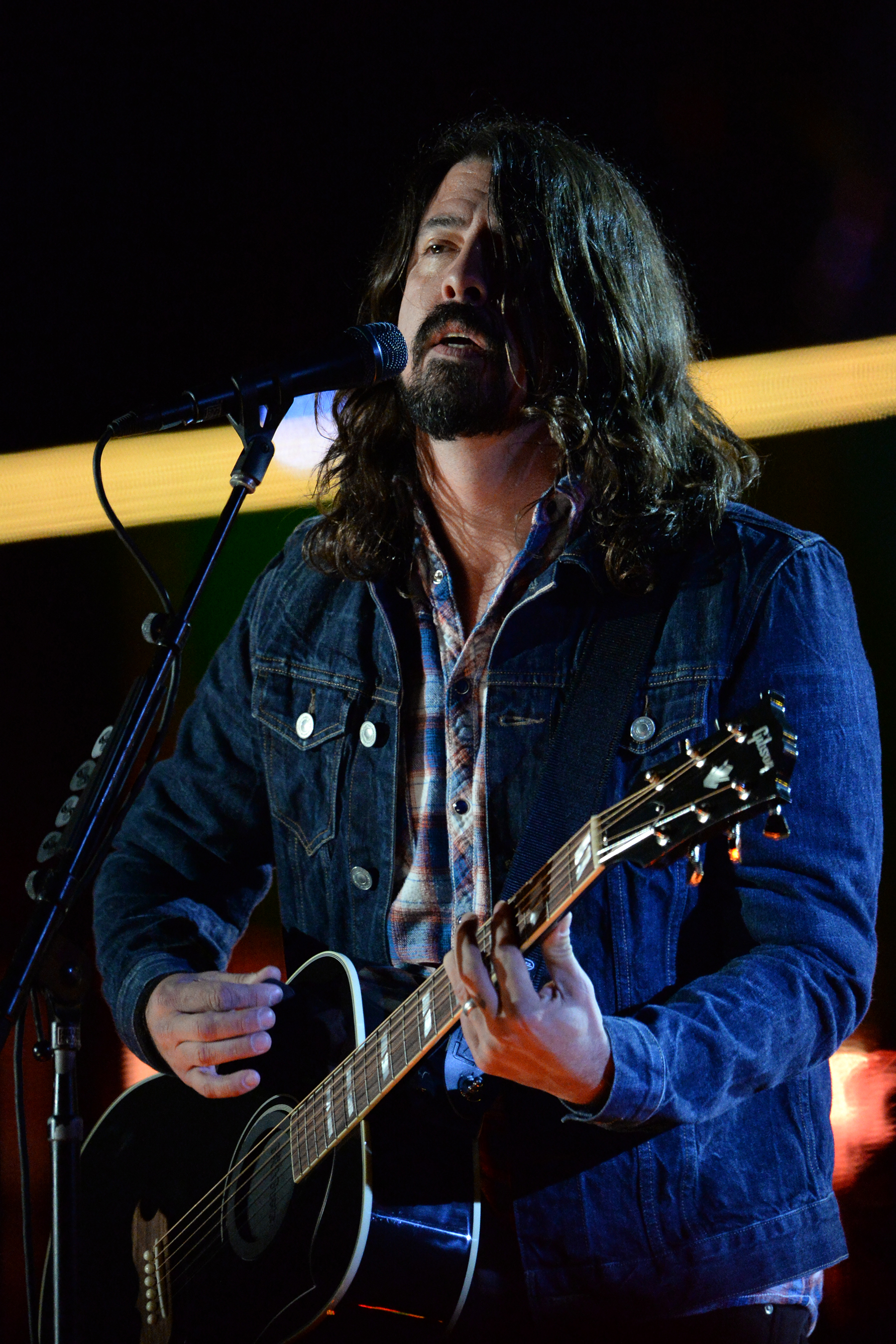 Dave Grohl plays an acoustic version of the Foo Fighters hit ‘Everlong’ during The Concert for Valor in Washington, D.C. Nov. 11, 2014. DoD News photo by EJ Hersom